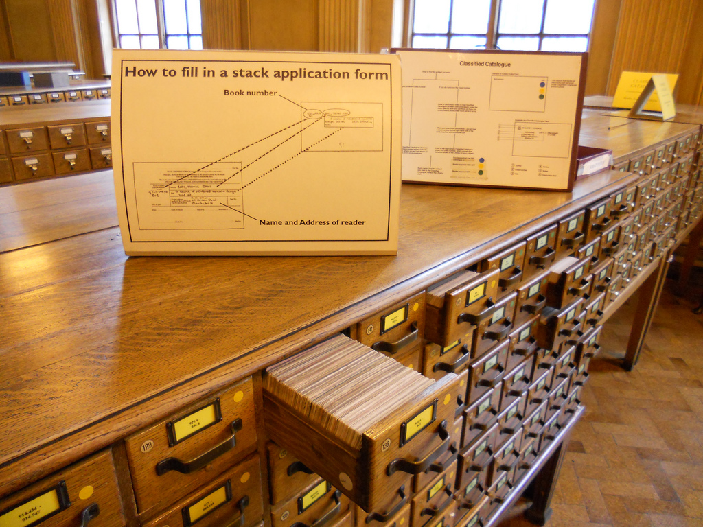 Manchester Central Library (UK) in St Peter's Square will shortly be closing for 4 years of restoration, refurbishment and modernisation. This iconic neo-classical circular building opened in 1934, and was inspired in part by the Pantheon in Rome, and the New York City Library. It is one of the finest and largest libraries in the country and some of the furniture and fittings date back to the 1930s. In the Catalogue Hall, the rows of card indexes will soon disappear into history, and the entire Library catalogue will be computerised.